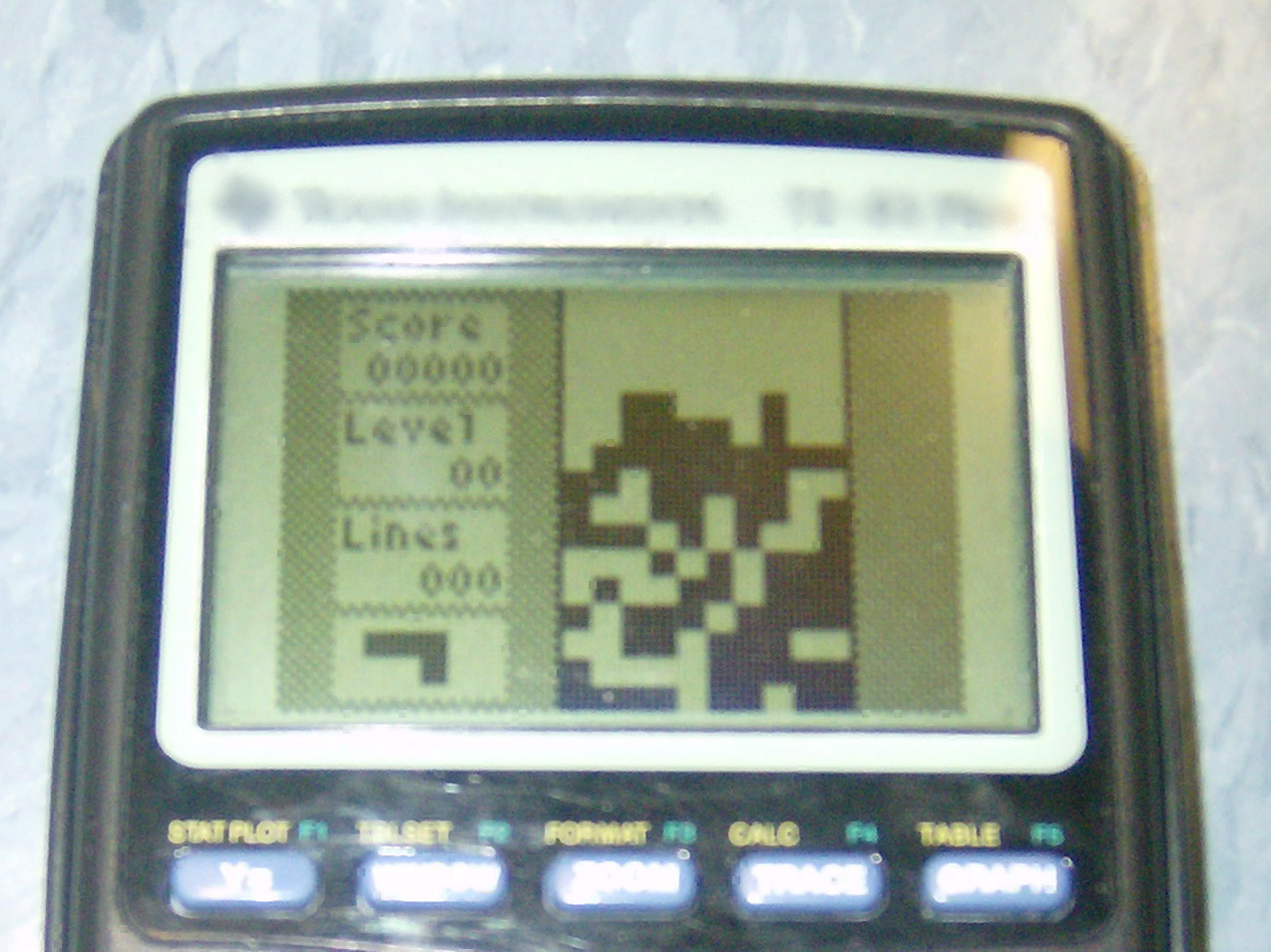 A picture of Tetris being played on a TI-83 Plus graphing calculator.